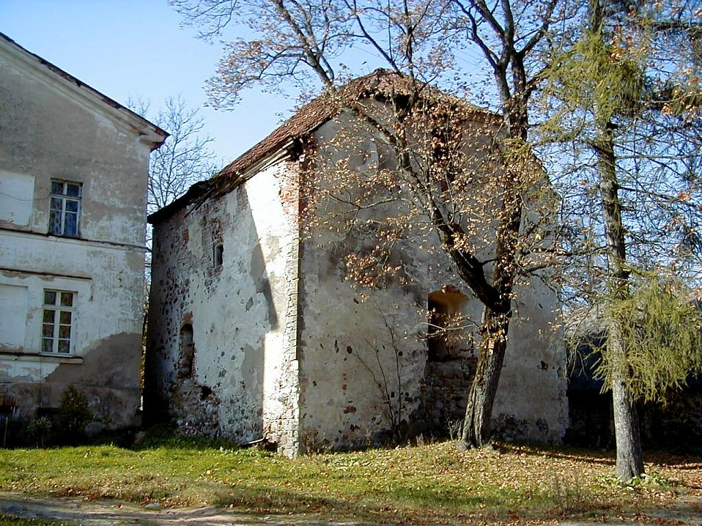 Nabe Castle Tower